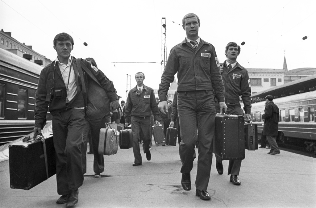 “Leaving for Baikal-Amur Railroad constrcution”. A team of volunteers, members of the Young Communist League, at the Yaroslavsky Railway Terminal in Moscow prior to their departure to construction sites of the Baikal-Amur Railroad.